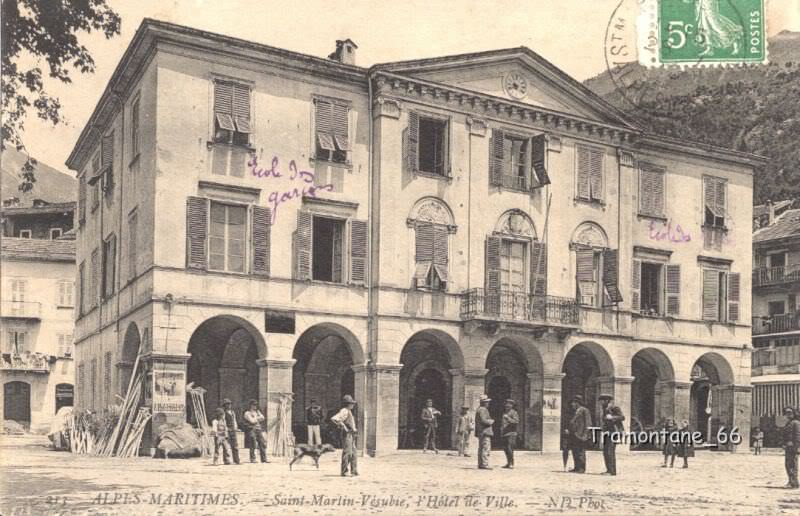 Postcard depicting the city hall of Saint-Martin-Vésubie, Alpes-Maritimes, France. According to the source, this postcard was sent in 1910. The postcard is signed ND Phot in the lower right and can thereby be associated with the brothers Etienne (1832–1918) and Louis-Antonin Neurdein (1845–1914), see here, here and BNF record. Full caption: 213 – Alpes-Maritimes – Saint-Martin-Vésubie, l'Hôtel de Ville ND Phot.